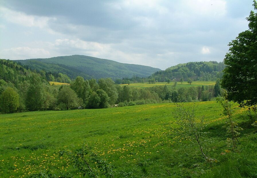 Finkenkoppe, Lusatian Mountains, Czech Republic